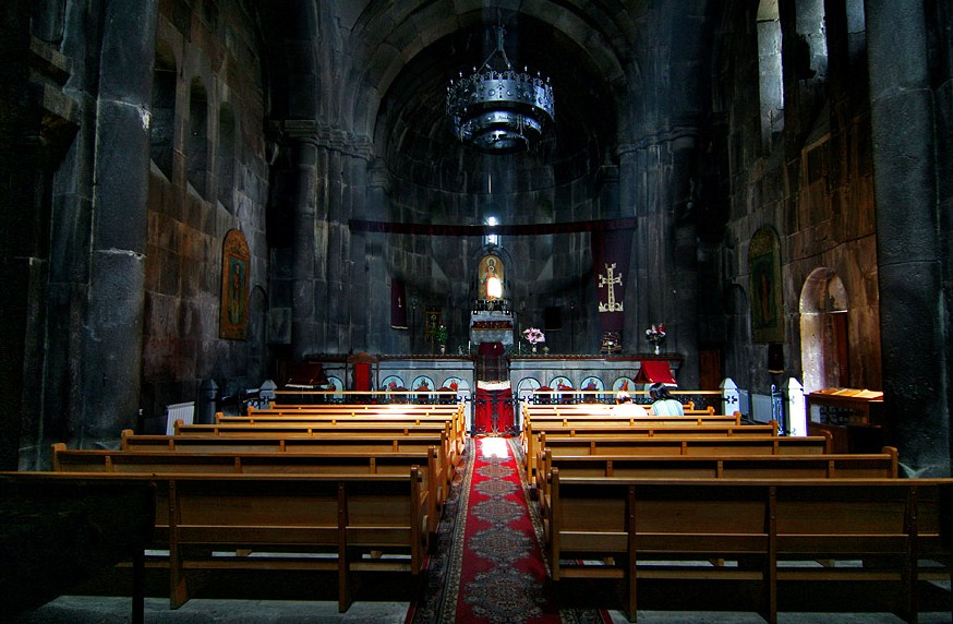 Kecharis Ch., Armenia. View: indoor